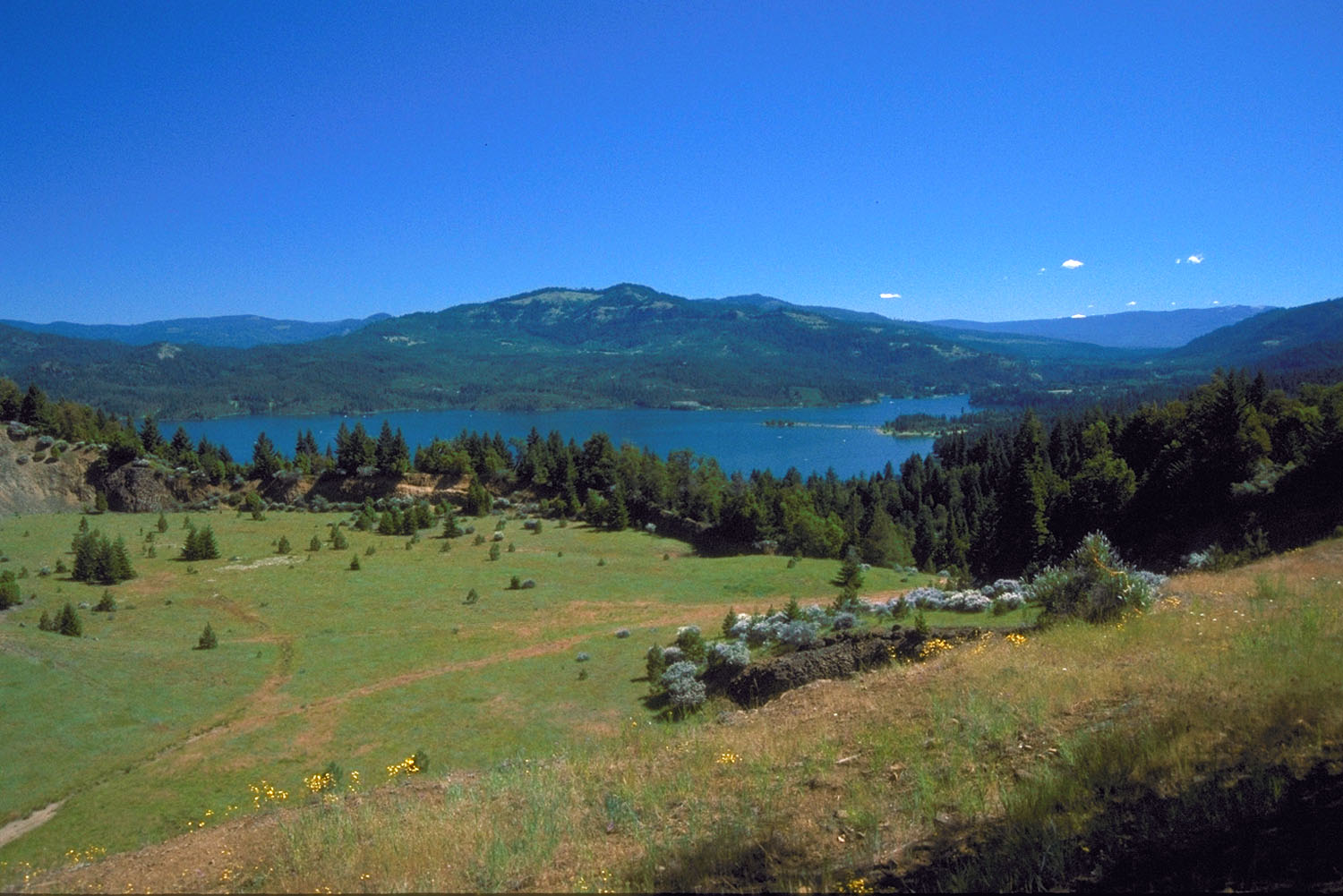 Lost Creek Lake on the Rogue River in Jackson County, Oregon, USA. The U.S. Army Corps of Engineers constructed the dam and lake in 1977 for flood control and water supply. The name of the dam was changed to William L. Jess Dam by an act of Congress in 1996. View is from behind the dam to the west overlooking the top of the dam. Coordinates: 42°40′14.97″N 122°40′19.08″W / 42.670825°N 122.6719667°W